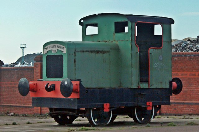 "The Atlantic Avenue, 1998" Ruston 48DS 0-4-0 Diesel Shunter, on the corner of Bankfield Street and Derby Road, Bootle, England, as seen from across the junction at the end of Bankhall Street. Visible behind the wall is the S. Norton scrapyard on Regent Road. This standard-gauge engine was built in 1945, works number 224347. It is owned by Merseyside Development Corporation